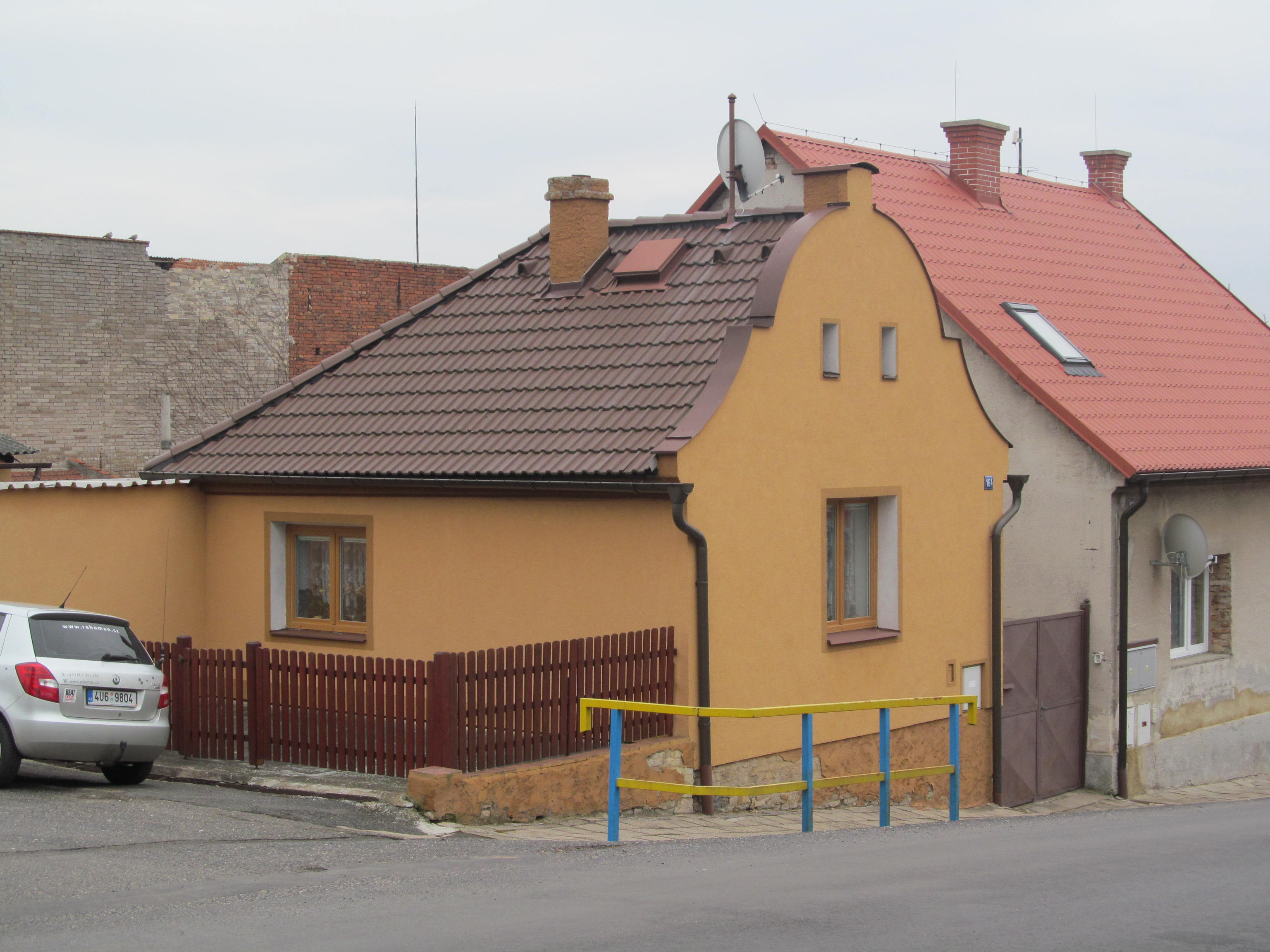 House No 164 in Měcholupy - former the new synagogue